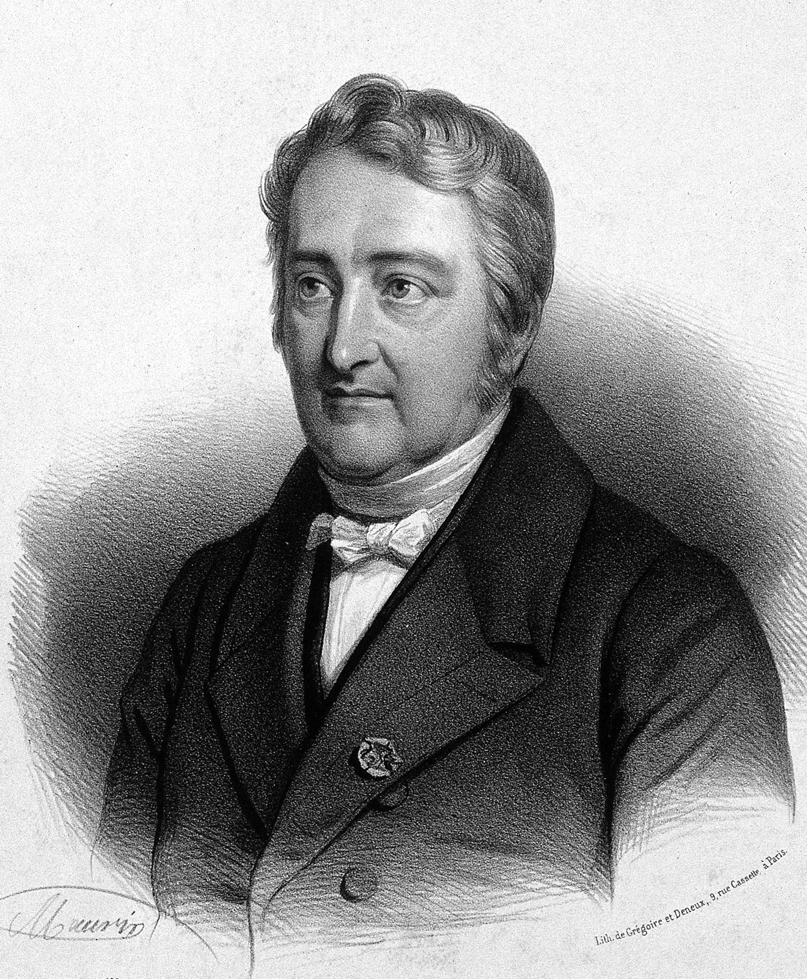 Pierre Joseph Pelletier, a French chemist. Lithograph.